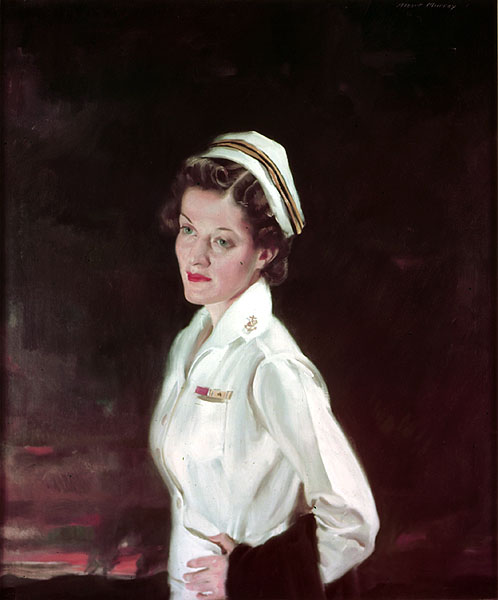 LTjg Ann Bernatitus, (NC), USN. Albert Murray, painter of numerous admirals and dignitaries, made this portrait of her at the Corcoran Gallery here in Washington in 1942. Bernatitus was stationed at National Naval Medical Center in Bethesda, Maryland, and several times she took the trolley or bus from Bethesda to the Corcoran to sit for Murray.